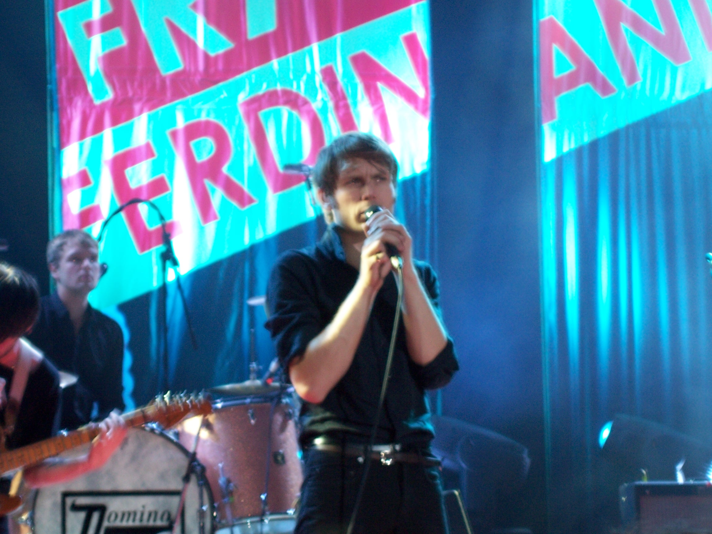 Alex Kapranos of Franz Ferdinand singing at a concert at SDSU in October 2005.